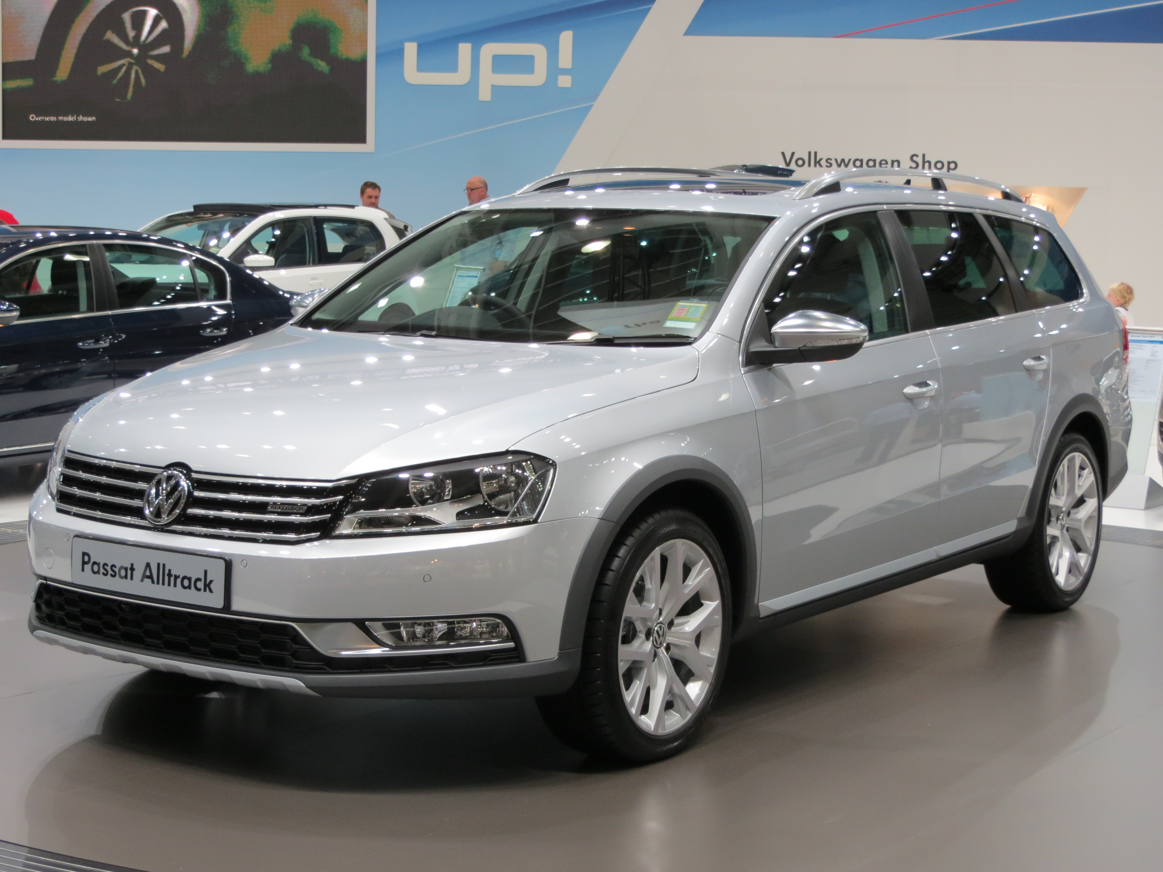 2012 Volkswagen Passat (3C MY13) Alltrack station wagon. Photographed at the 2012 Australian International Motor Show, Sydney, New South Wales, Australia.